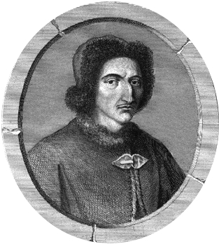 Frecnh archaeologist and historian Jacob Spon (1647-1685)